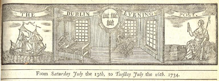 The middle panels of this masthead portraying a spinner and a weaver at work. The final panel shows what is presumably Hibernia herself, seated surrounded by reams of paper. from source. 16 July 1734